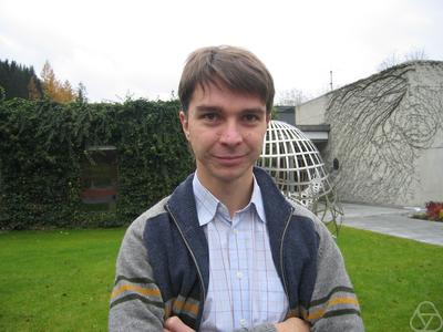 Picture of Stanislav Smirnov